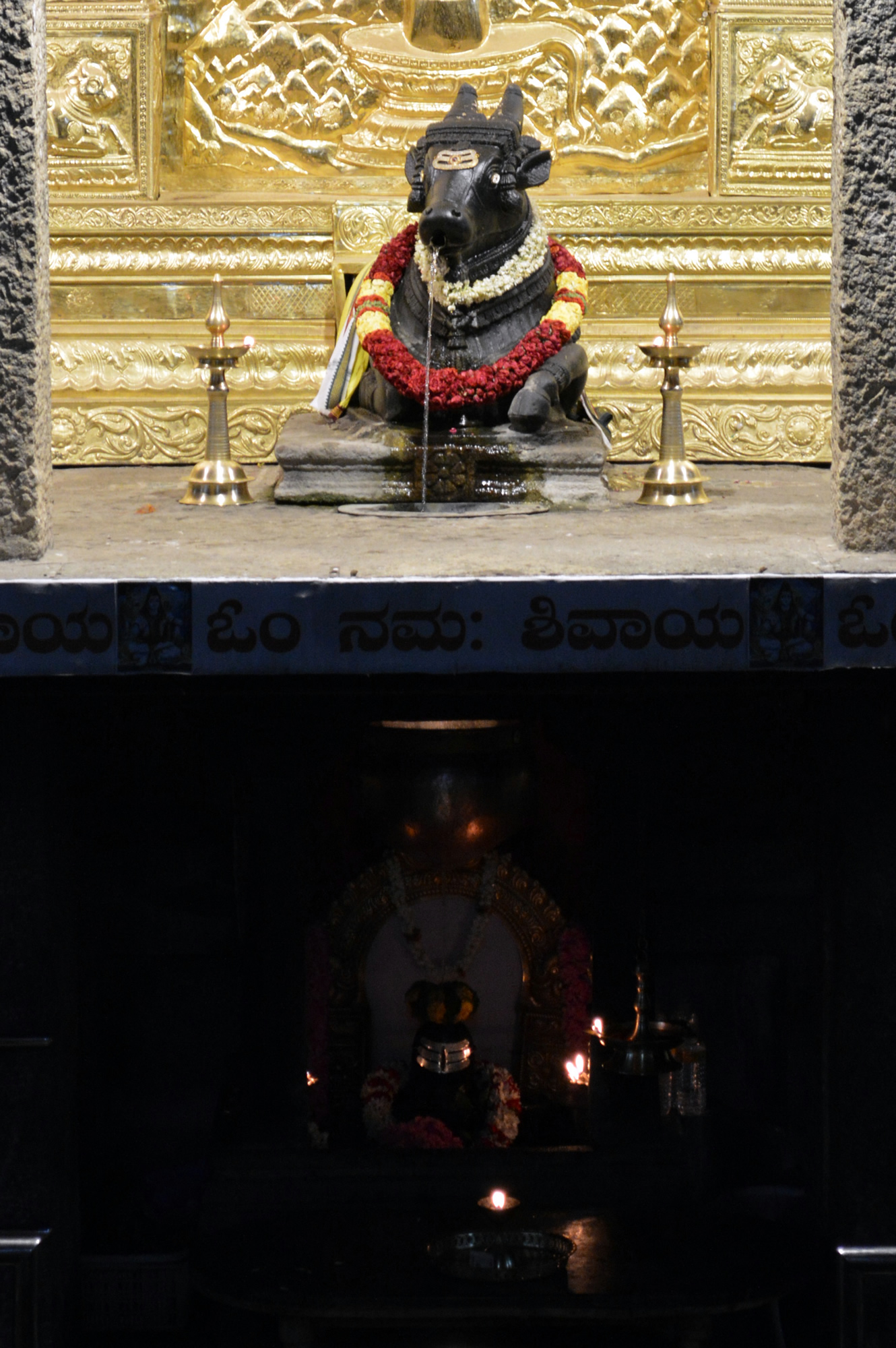 Nandi Teertha Temple - Bangalore